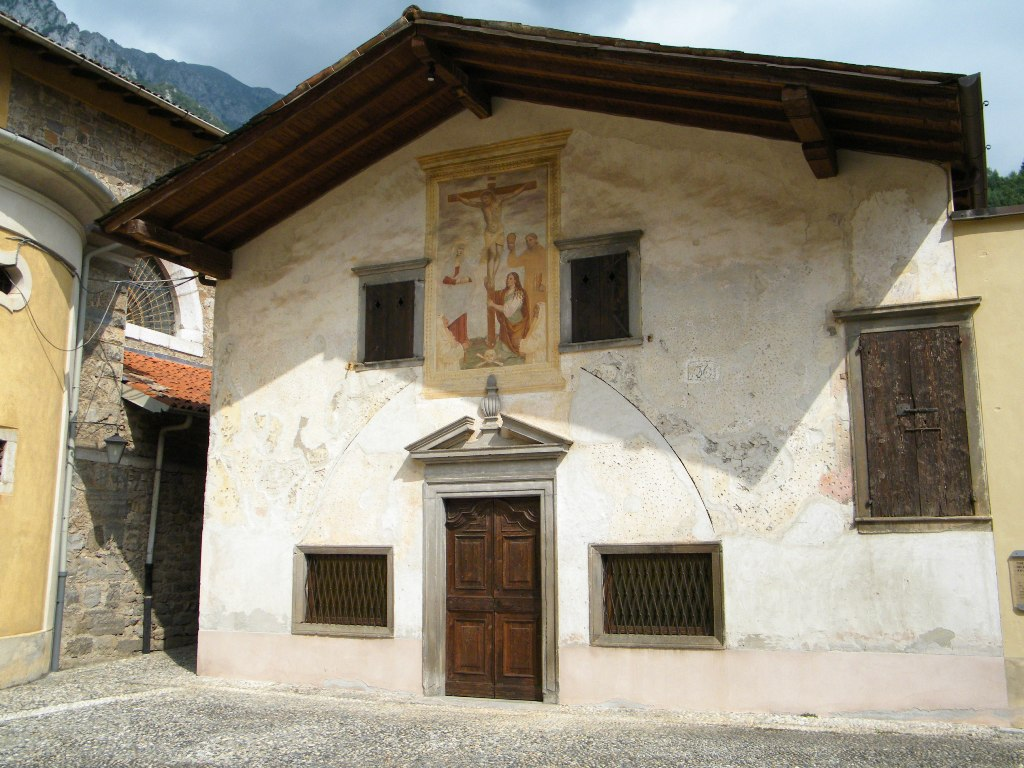 Disciplini church. Ardesio